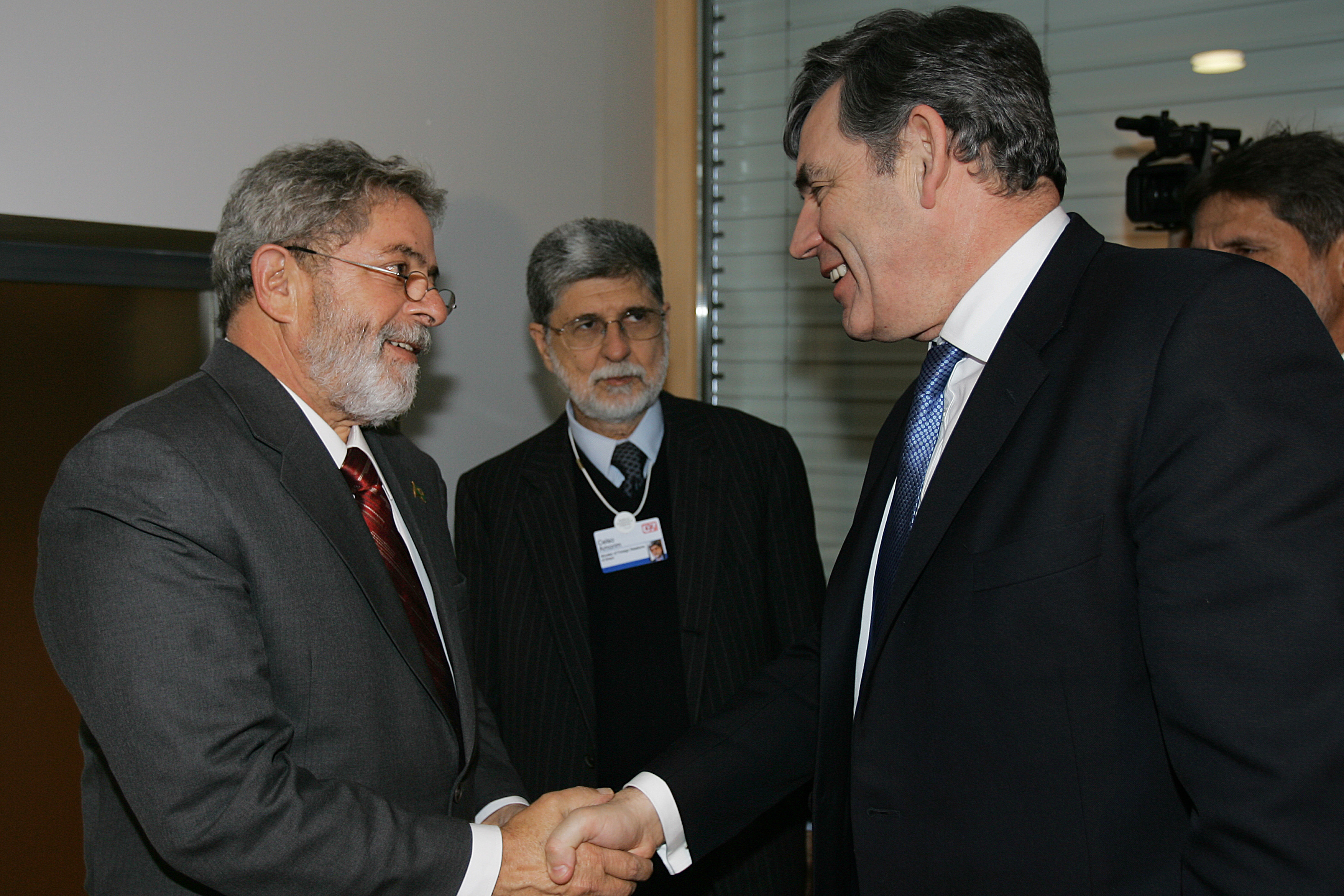 Davos (Switzerland) - The Brazilian president Luís Inácio Lula da Silva and the british chancellor of the Exchequer, Gordon Brown during the World Economic Forum